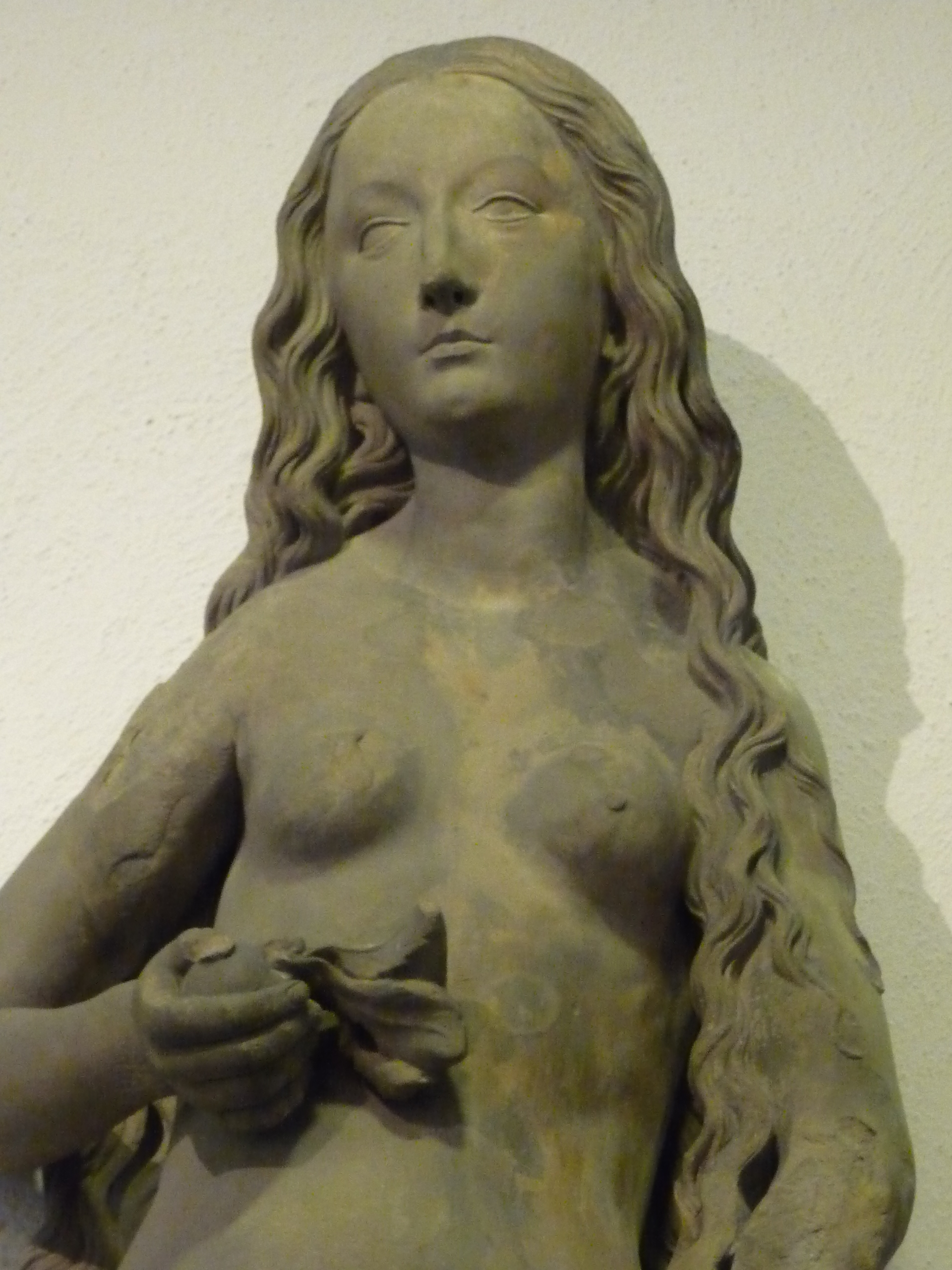 Tilman Riemenschneider: Eva, detail